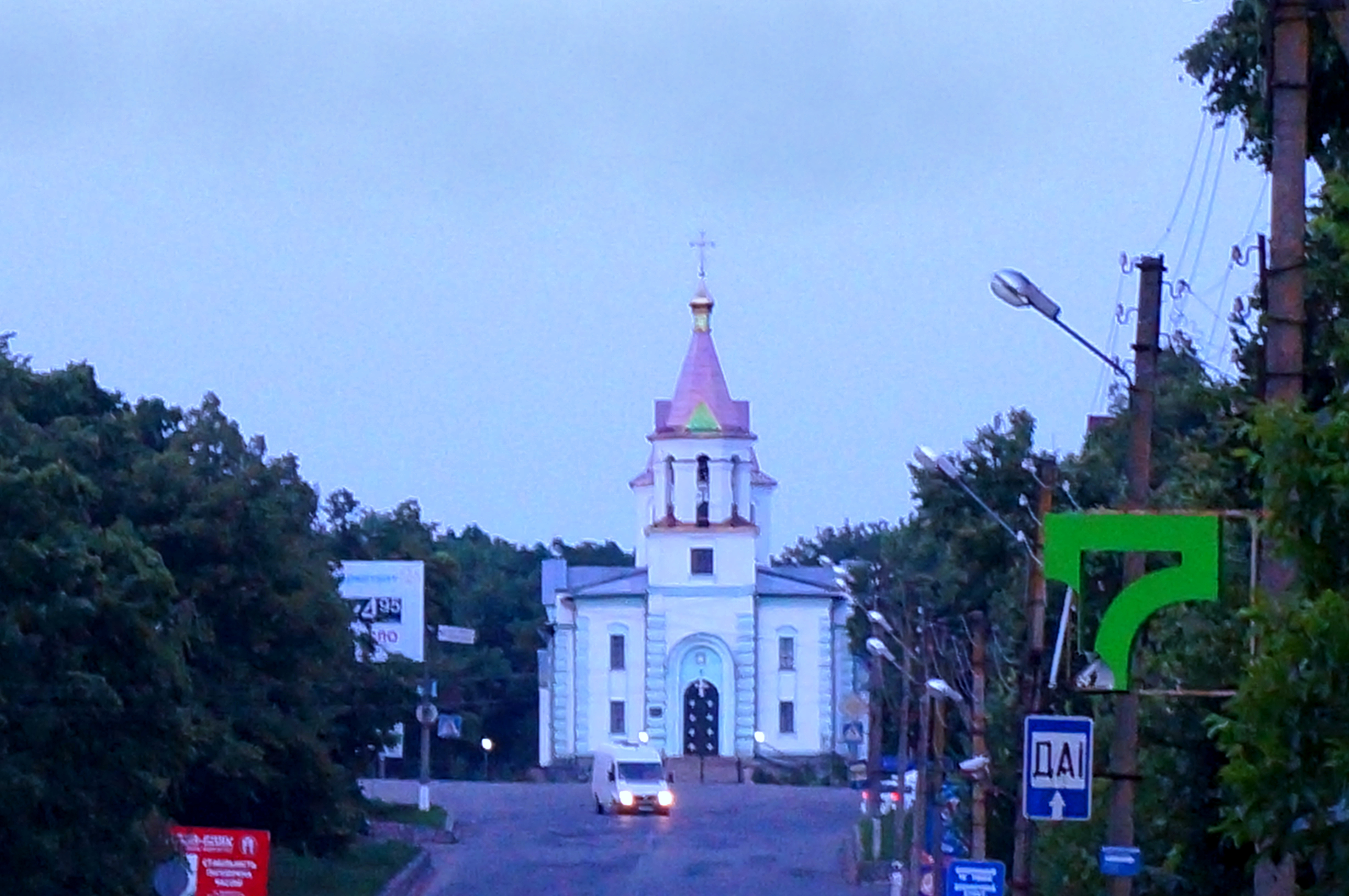 Cathedral in Kobeliaky, Ukraine